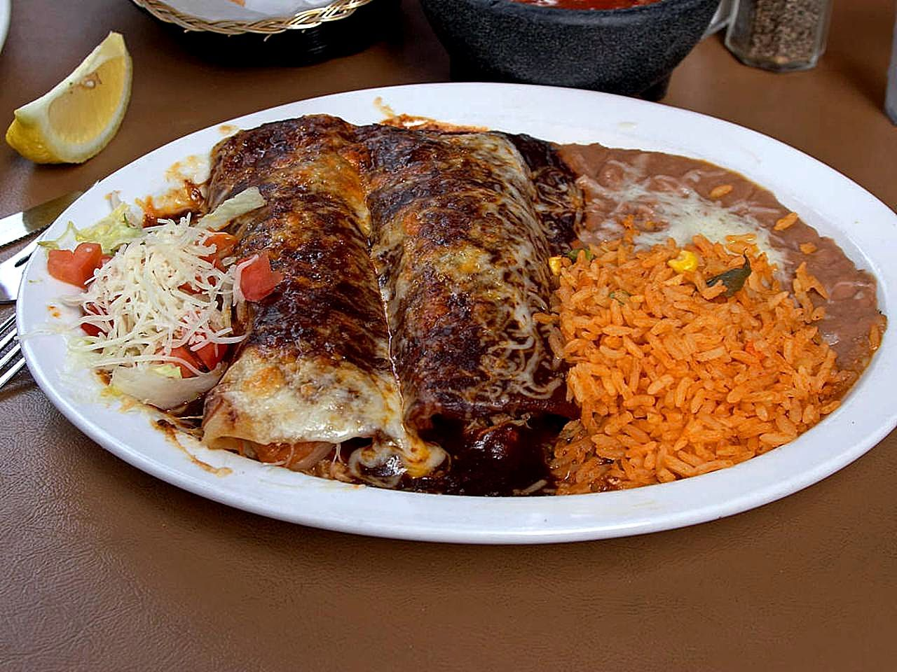 Image title: Enchiladas rice beans Image from Public domain images website